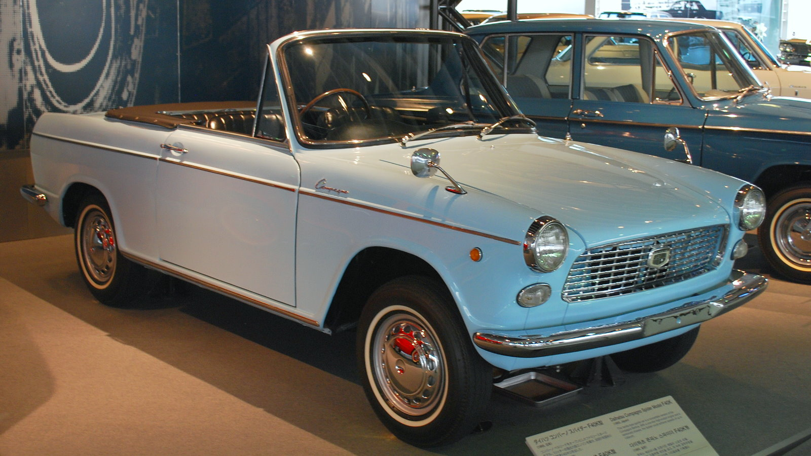 Daihatsu_Compagno-Spider Model F40K